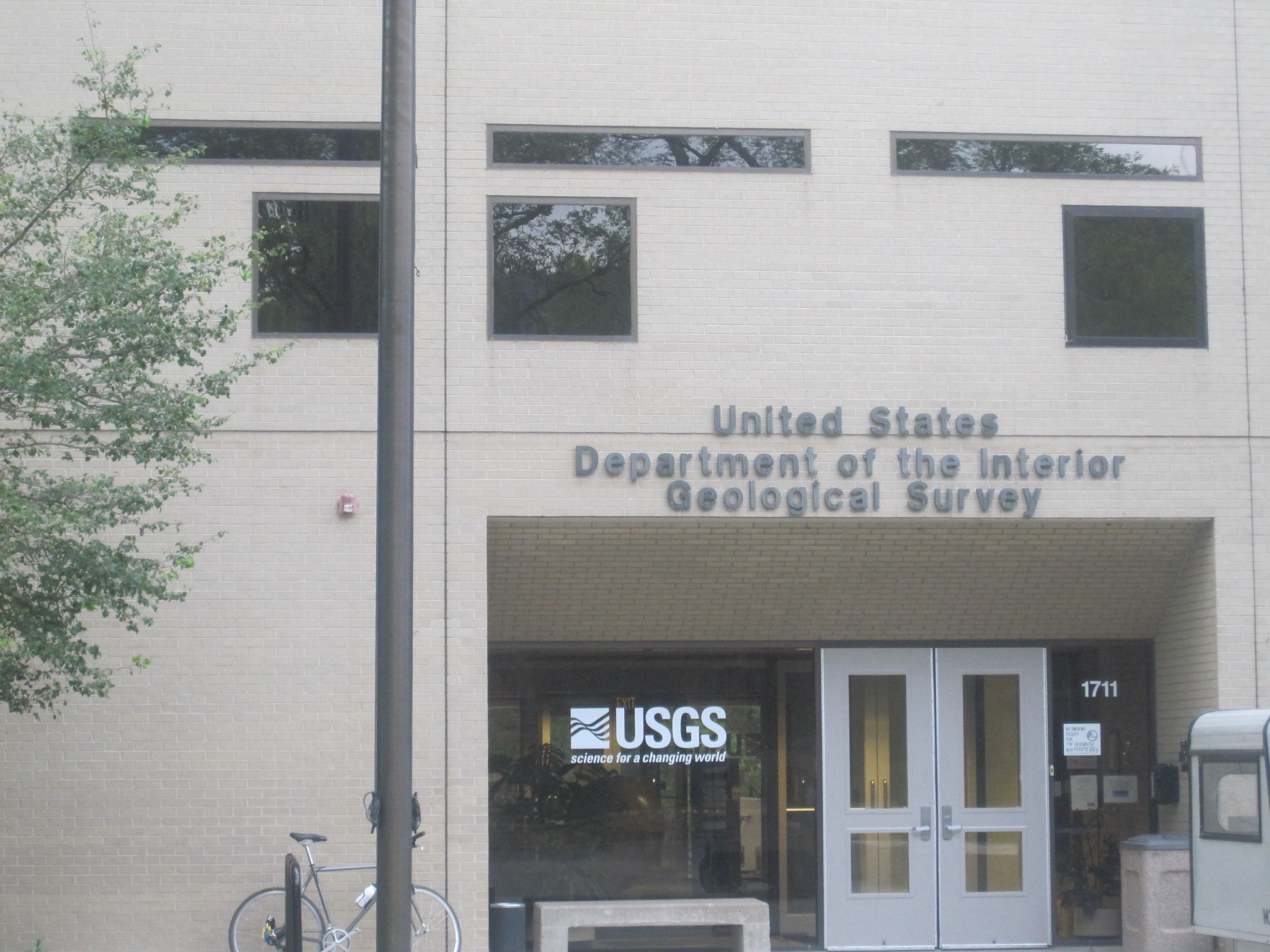 I took photo with Canon camera in Golden, CO.